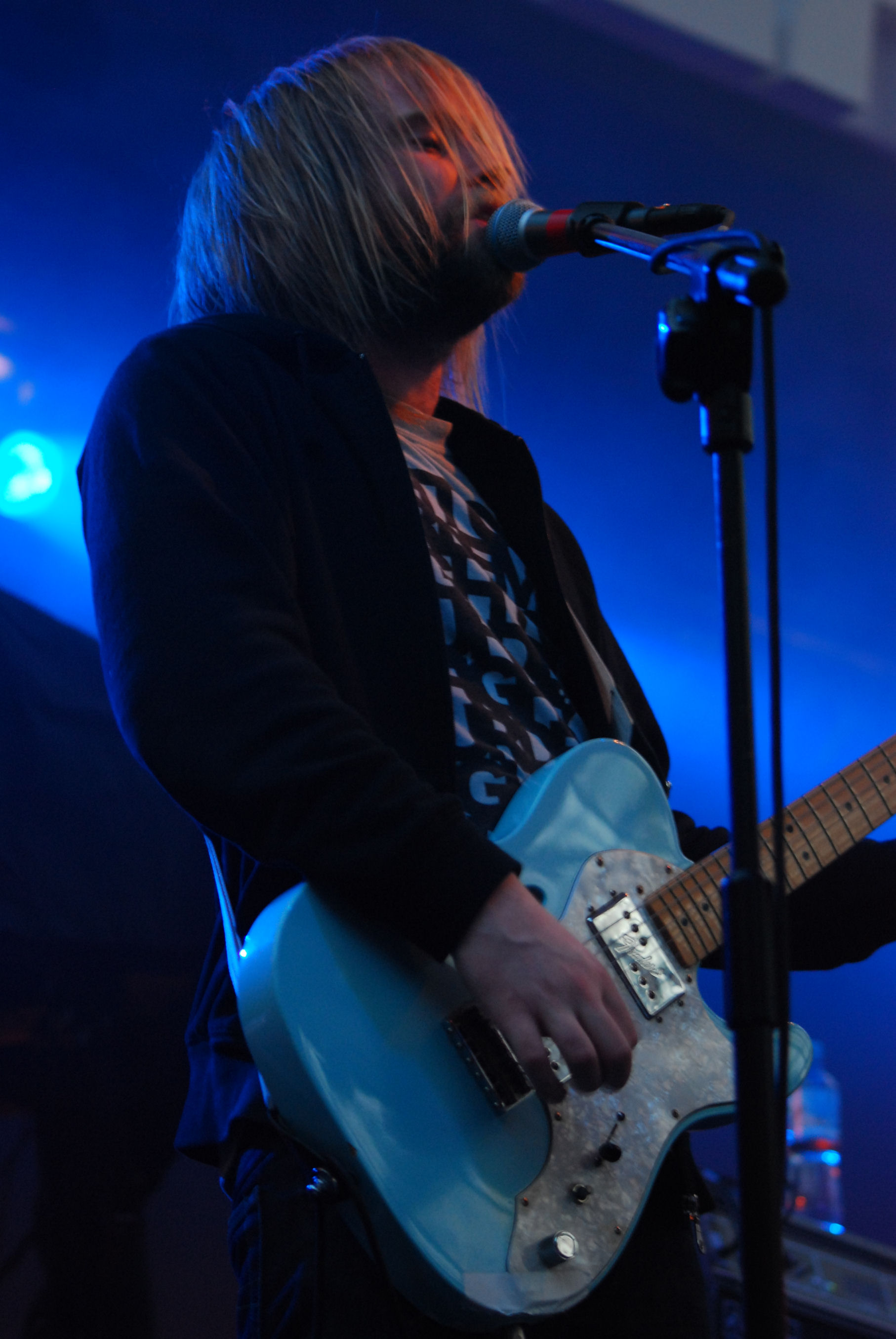 Jamie Wilcox from Pure Reason Revolution during concert in TS Wisła in Kraków To zdjęcie powstało dzięki współpracy z Rock-Servis